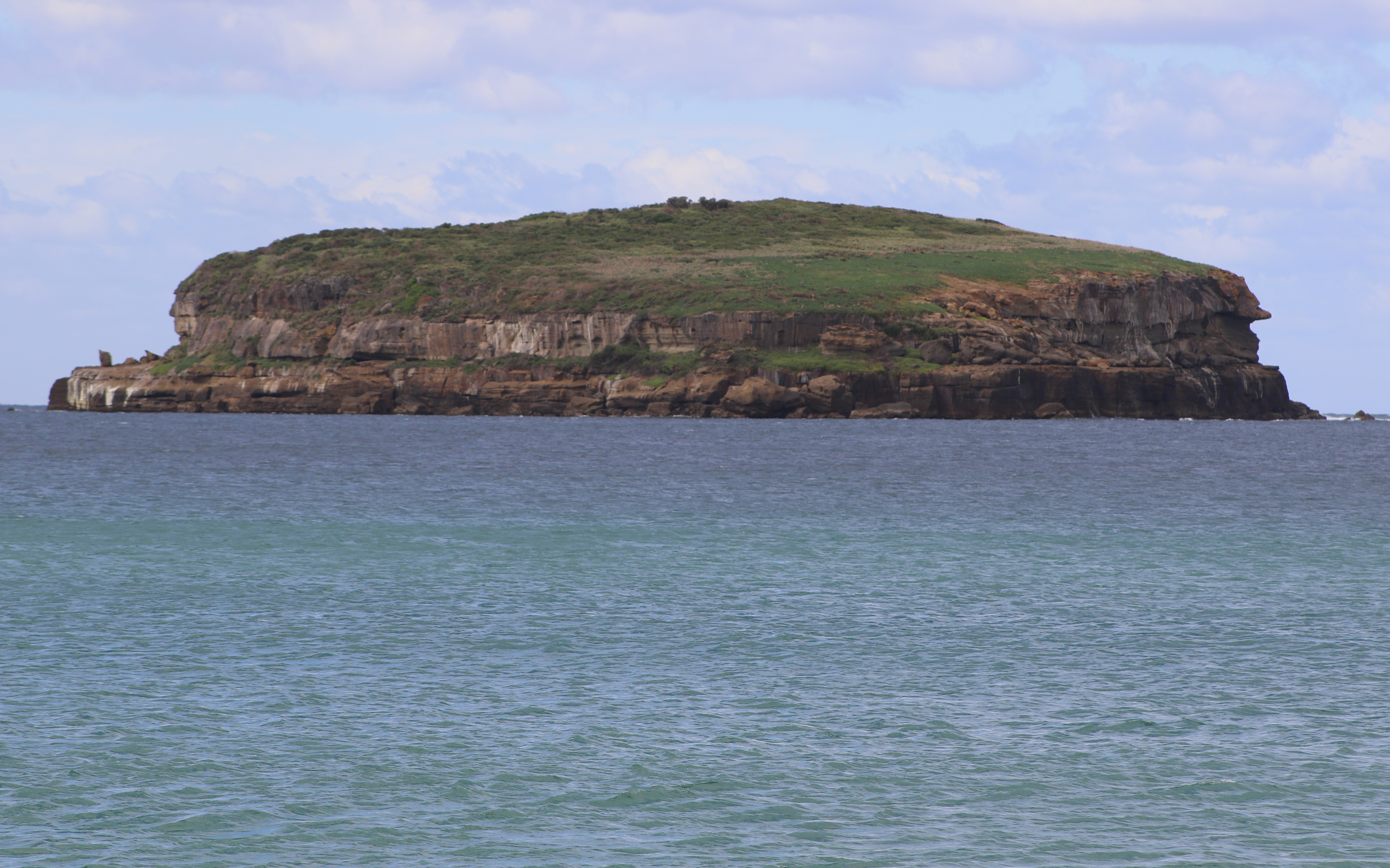 Bird Island New South Wales, taken from the beach